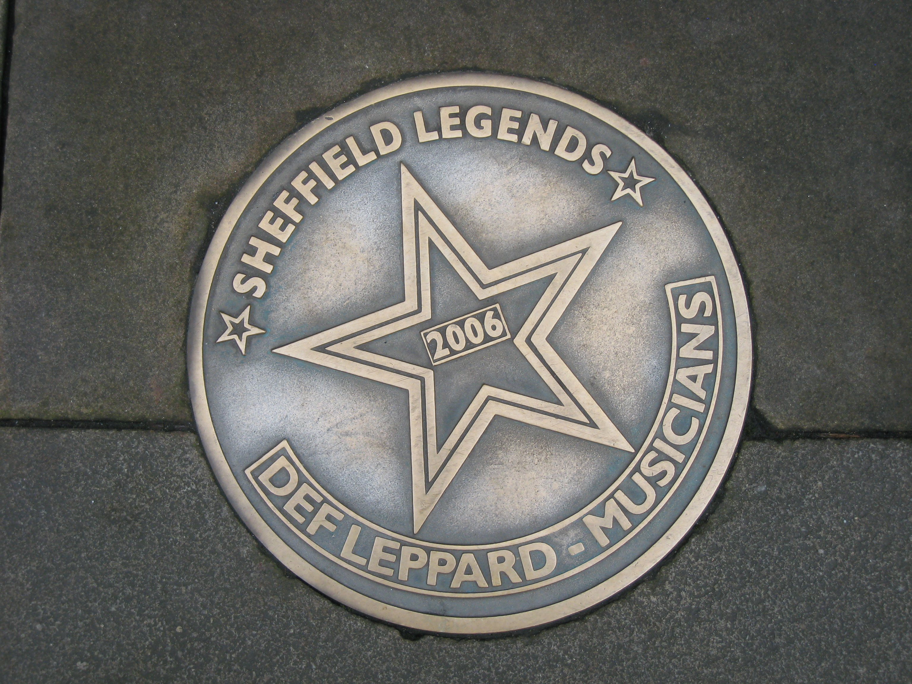 Commemorative star in the pavement outside Sheffield Town Hall: a "walk of fame" for people associated with the city. Def Leppard.